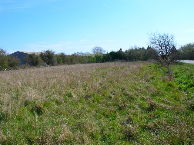 Rhee Wall, Callington Court Farm An idea of the width of the watercourse can be gleaned from this image. The A259 occupies only a small section on the right hand side. The scrub between the road and the barn is also part of the wall evident in the raised bank. Sections of the non-road part of the wall still exist but a fair proportion have now been ploughed out.